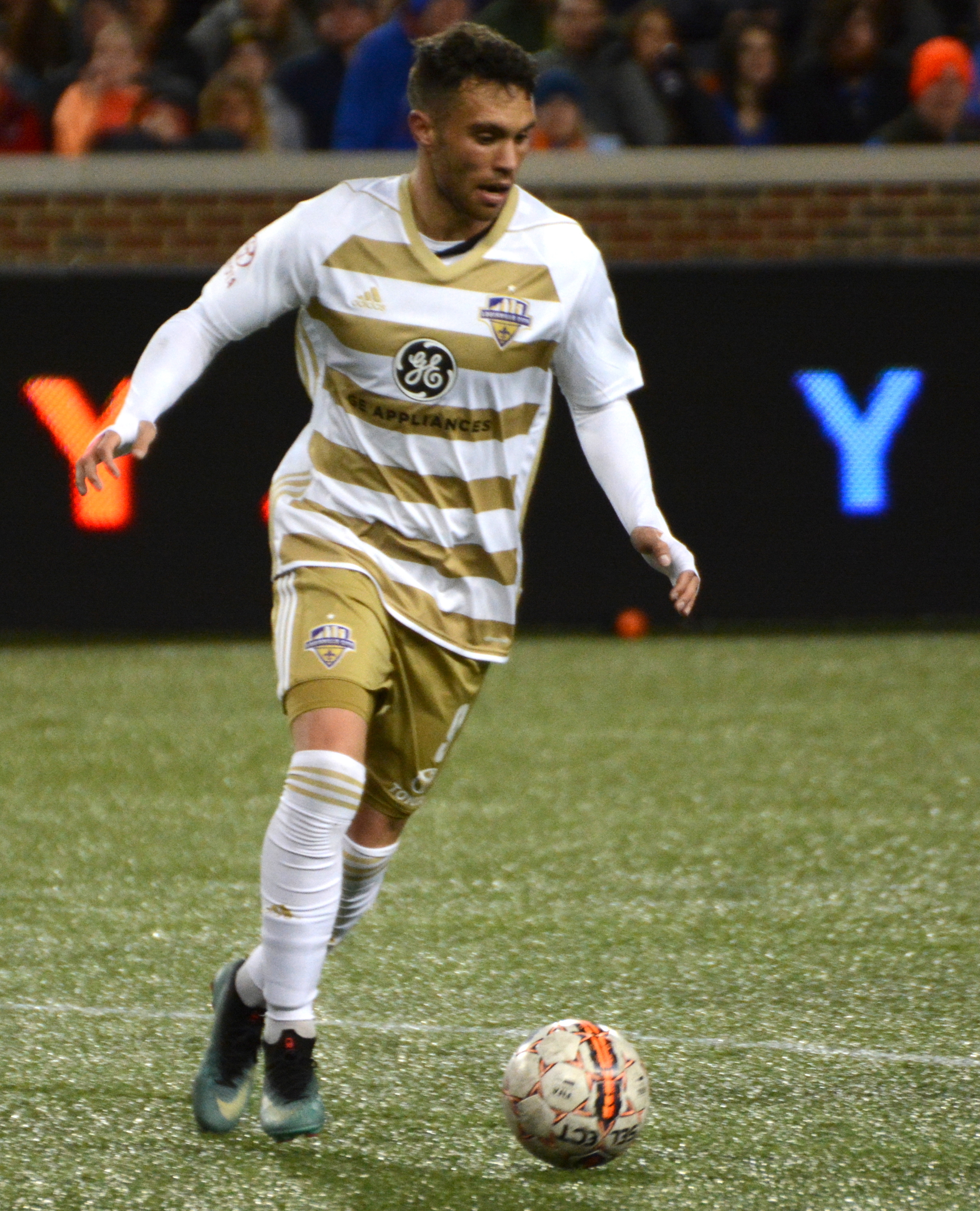 Taken during FC Cincinnati's home opener against Louisville City FC at Nippert Stadium in Cincinnati, USA on April 7, 2018.